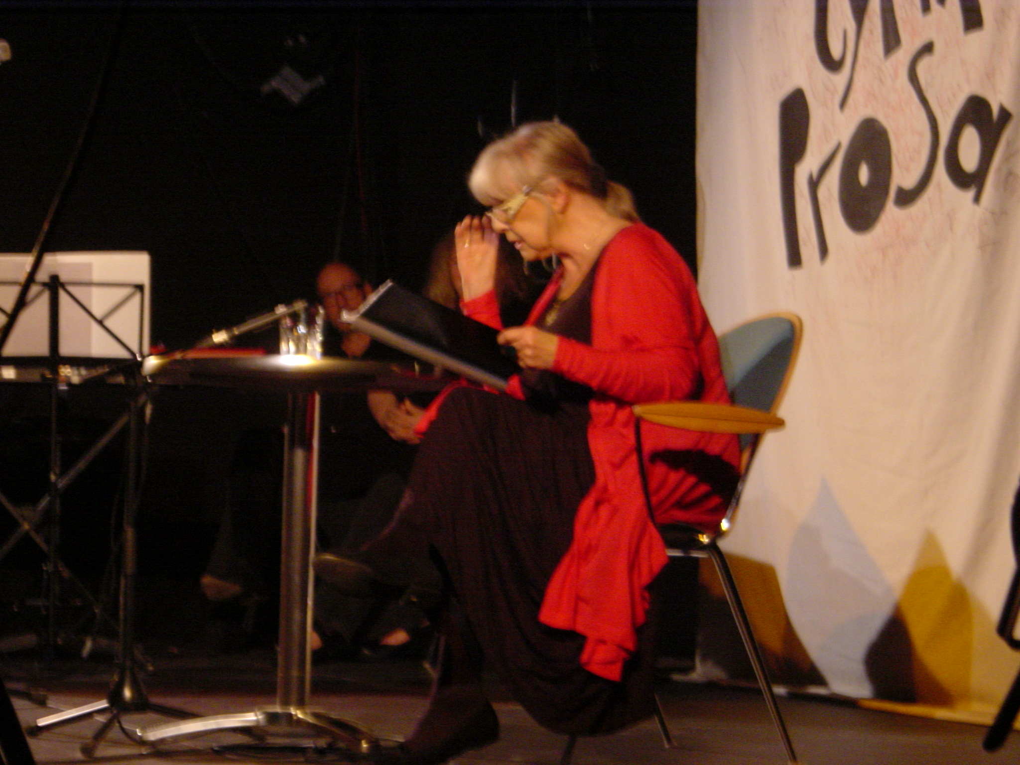 Annekathrin Bürger, German actress